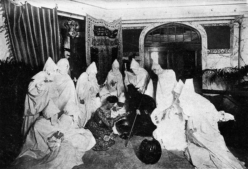 Image from The Book of Hallowe'en. Caption "Fortune-Telling."